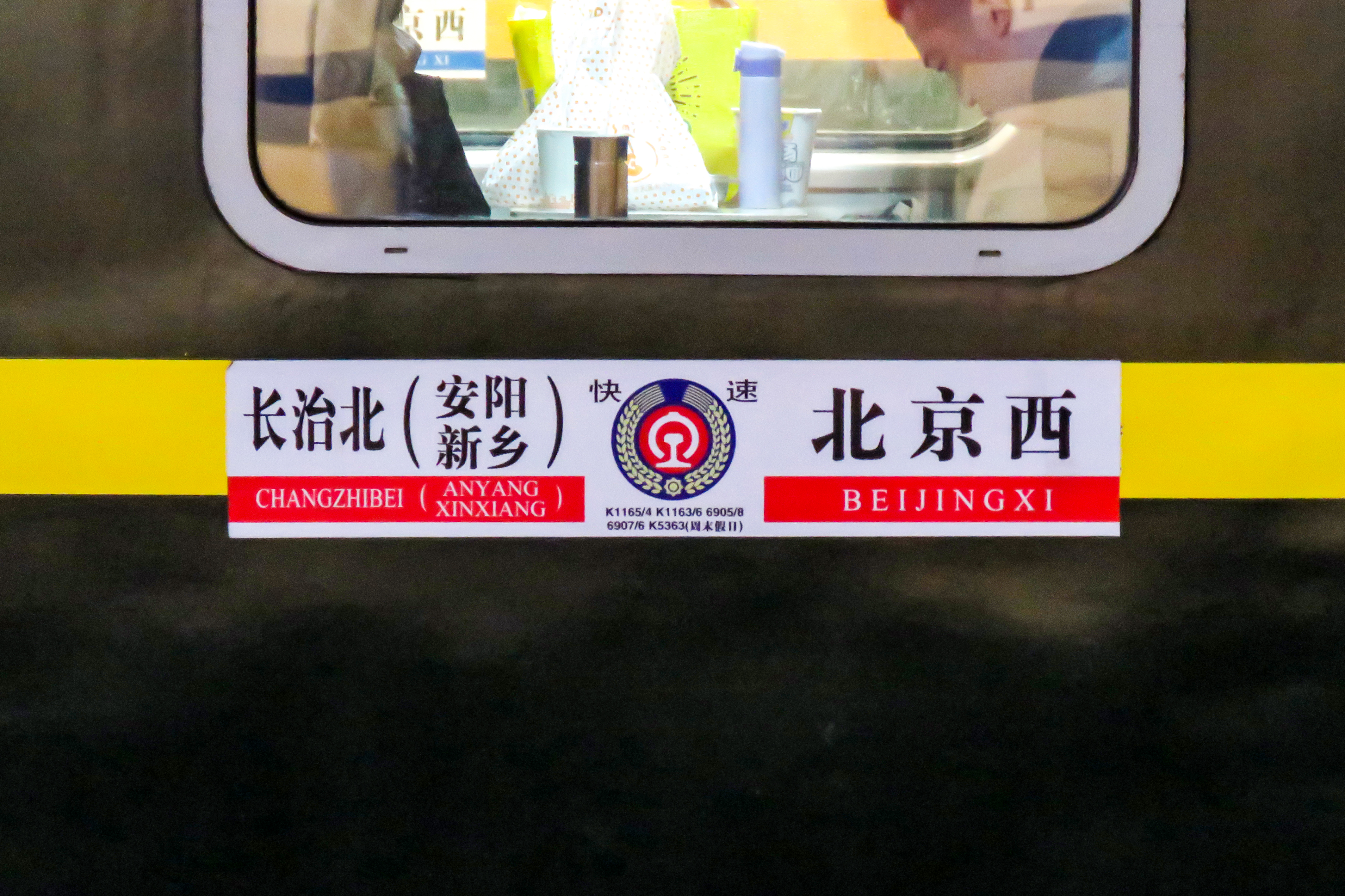 Taken after disembarking D902.